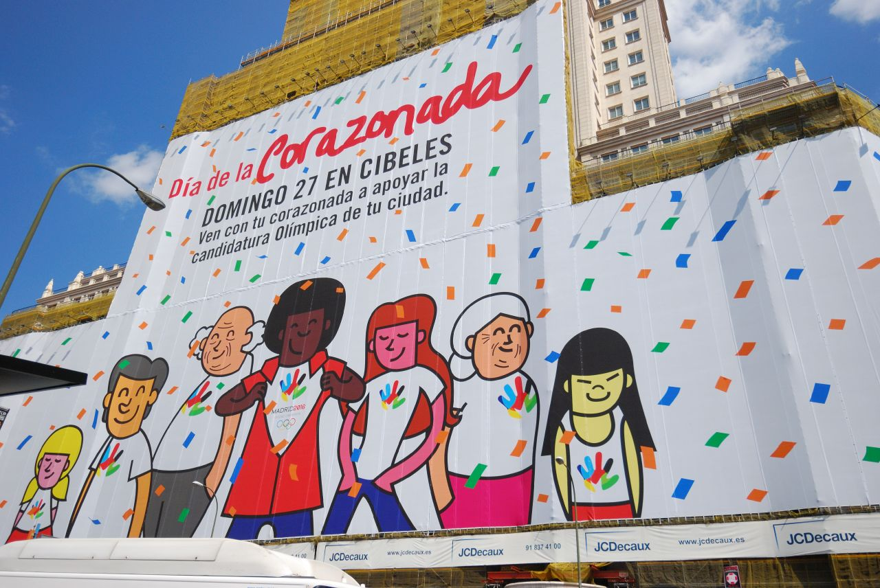 Huge banner of Madrid's bid for the 2016 Olympics in España Building, Spain Sq, Madrid, Spain.